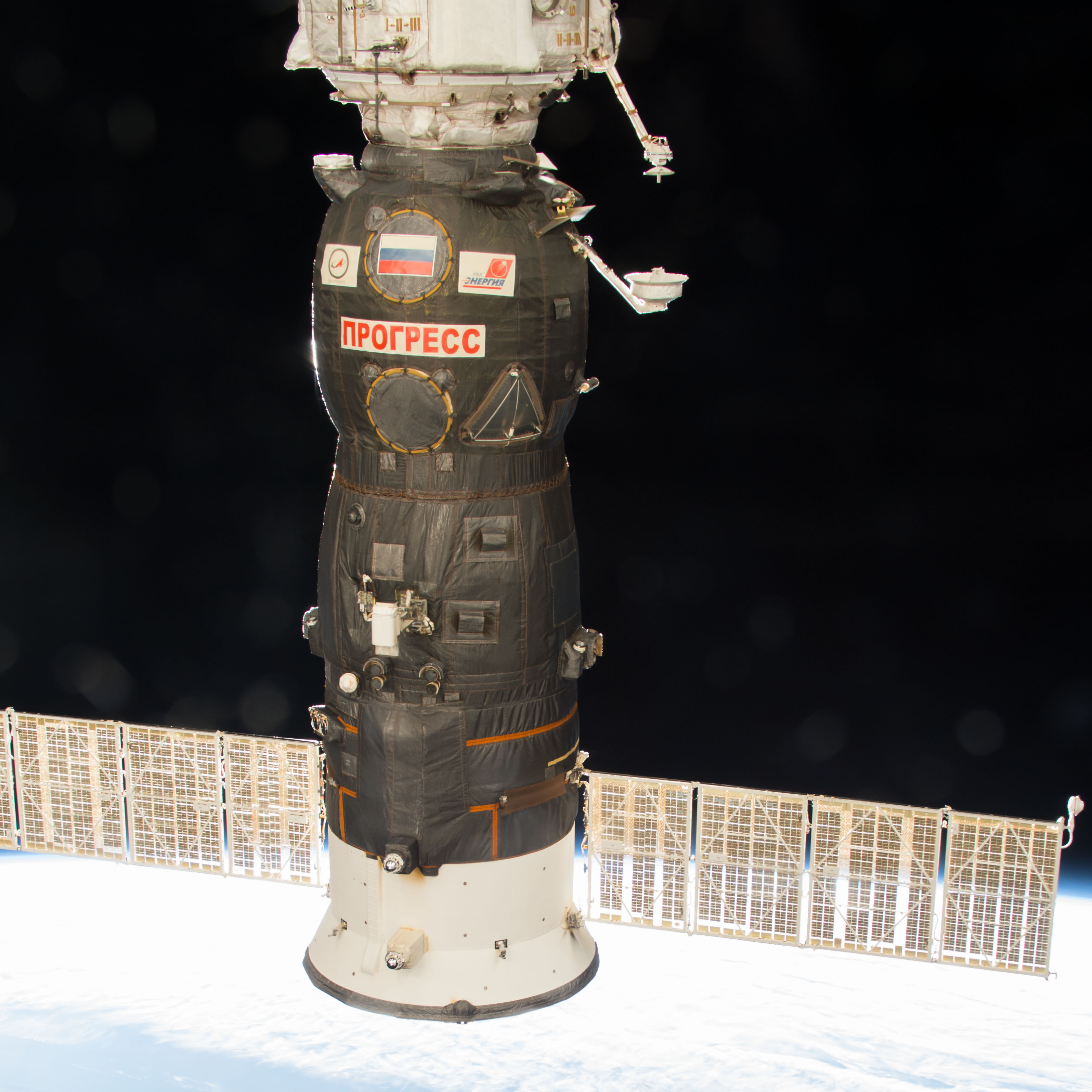 The Progress 66 cargo craft is seen docked to the Pirs docking compartment as the International Space Station orbits about 250 miles above Earth.